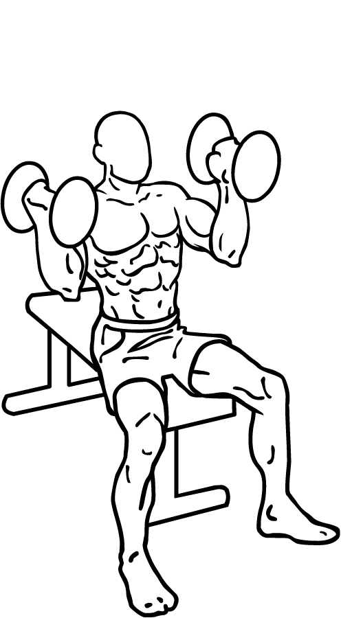 an exercise of shoulders